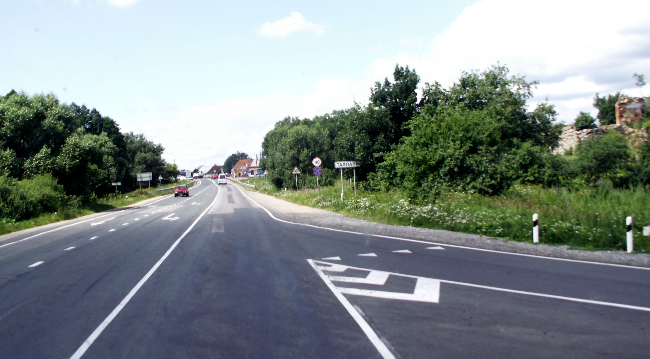 Talpaki in Kaliningrad oblast